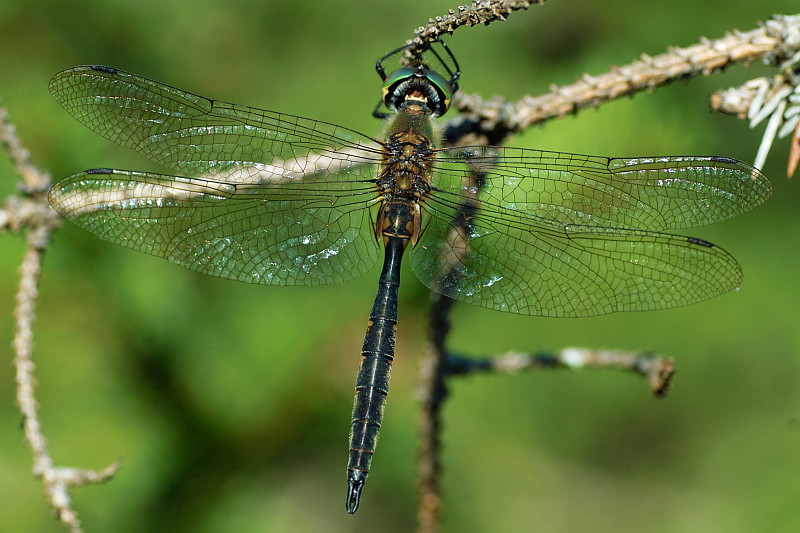 Somatochlora flavomaculata